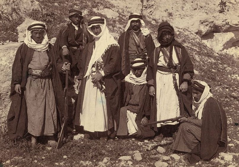 Bust of a Bedouin (Original Description in Matson collection)